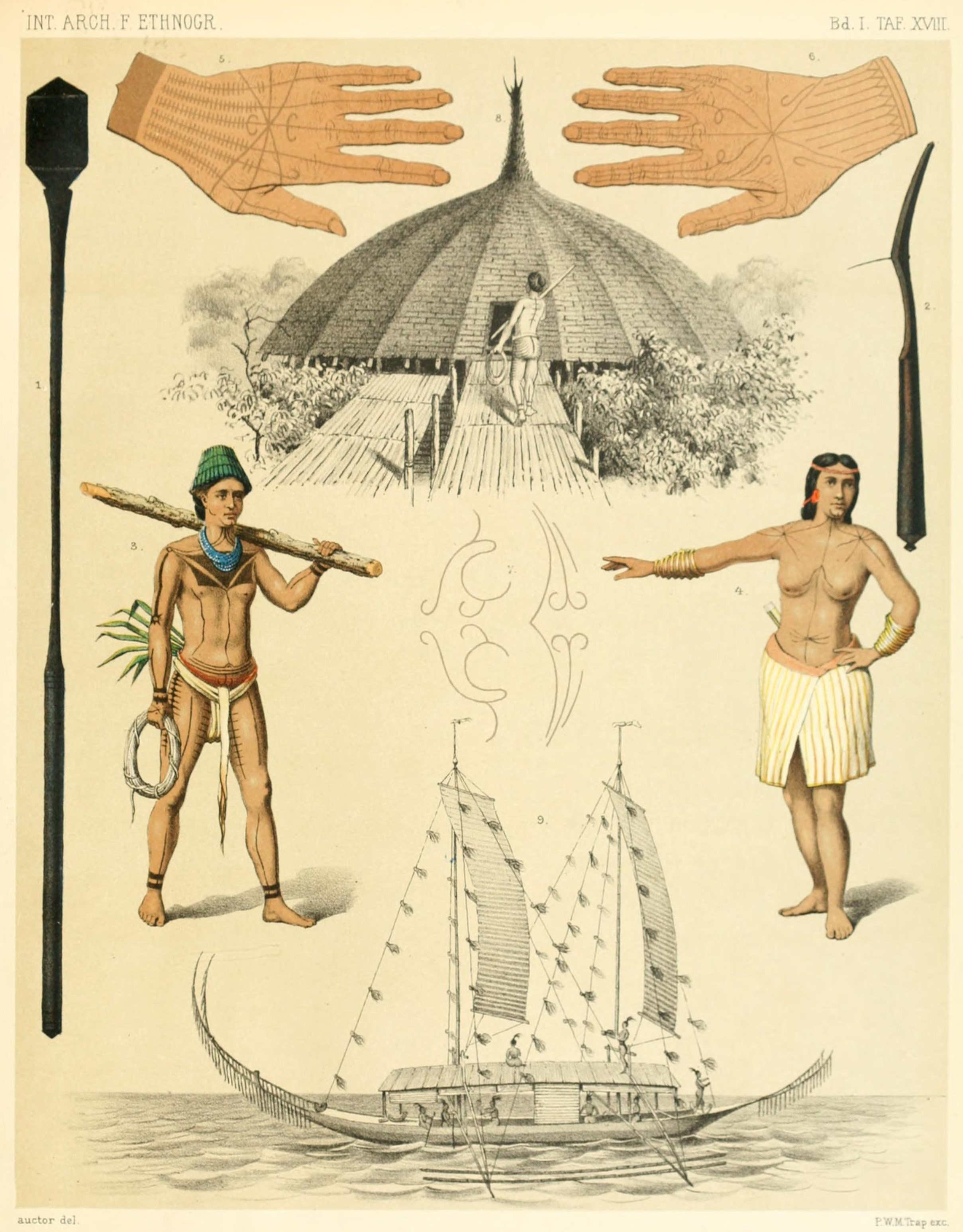 Plate XVIII of Internationales Archiv für Ethnographie volume 1. Showing Mentawai islander's tattoo, great house of Pora, and war boat knabat bogolu.